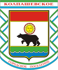 Kolpashevo (Tomsk oblast), coat of arms (2006)